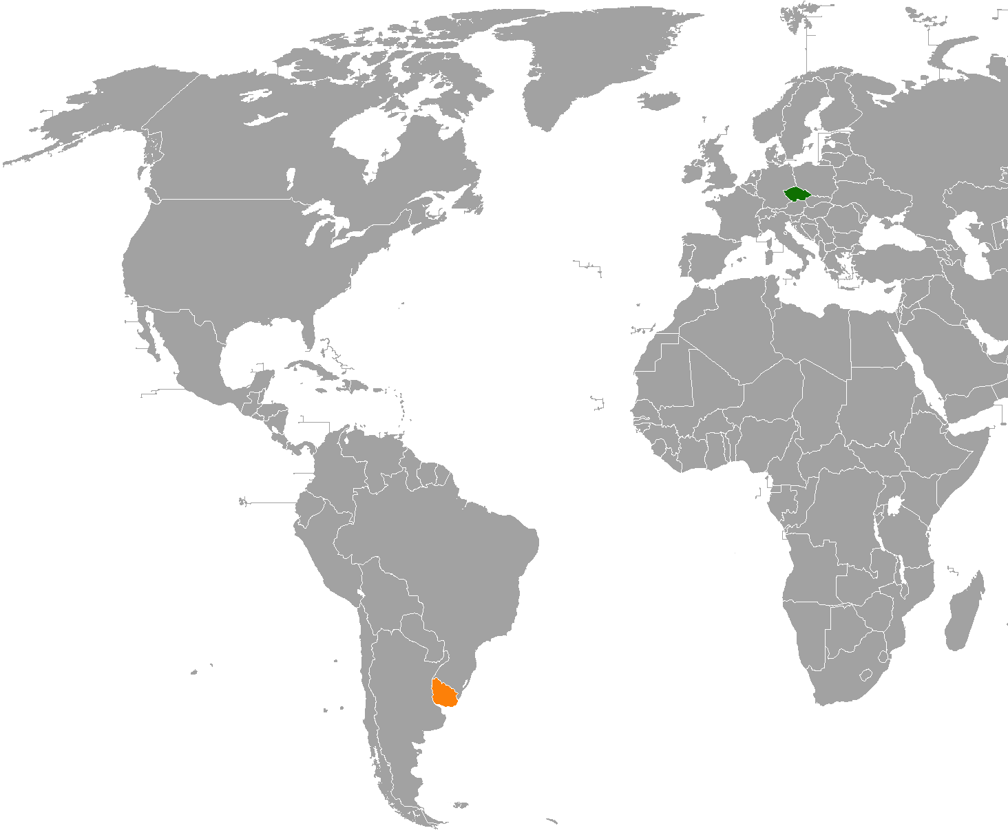 Czech Republic-Uruguay locator map. I made this map out of a licence free blank map of Europe.